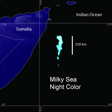 Defense Meteorological Satellite Program image of the "Milky Seas Effect" off of the Somali coast